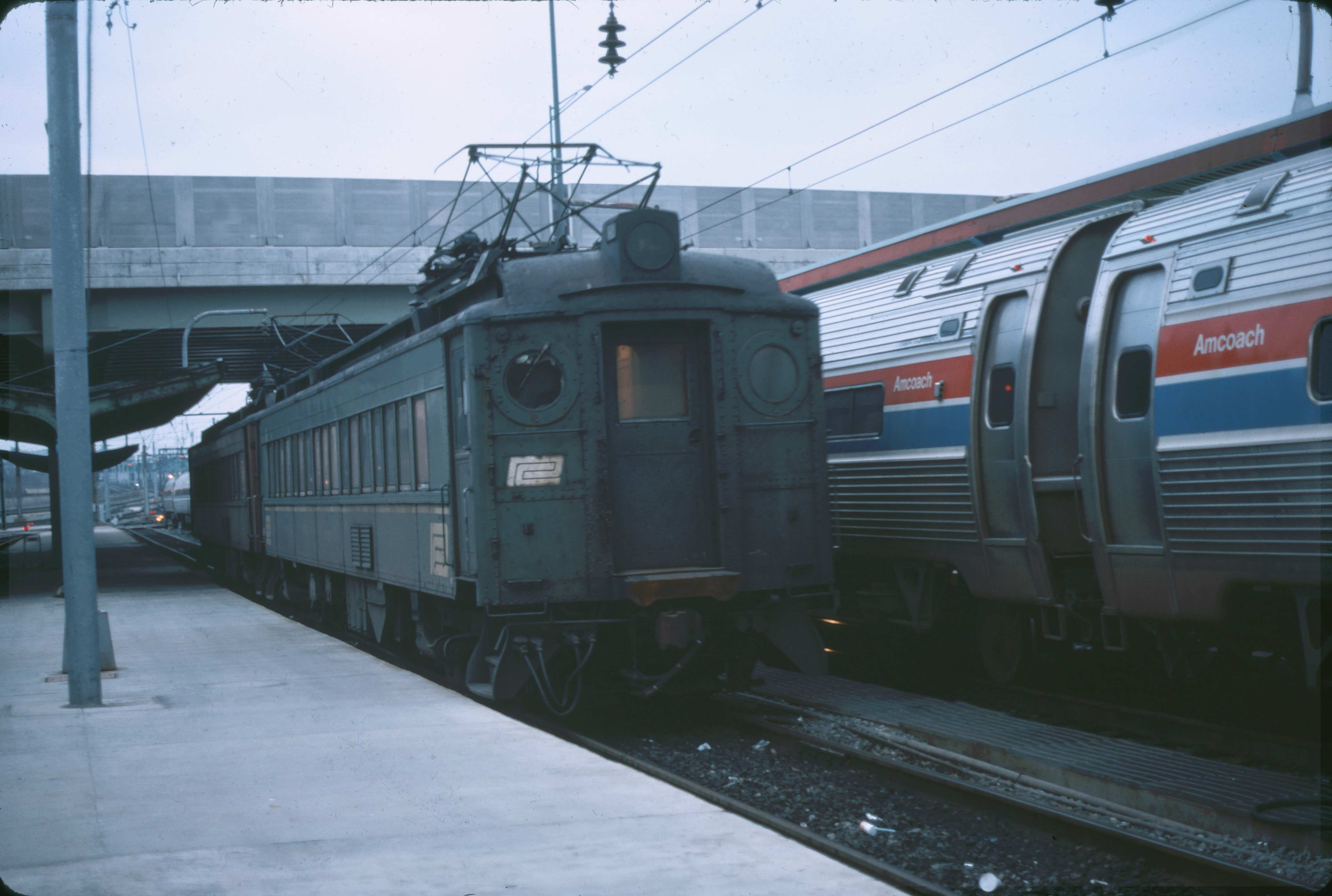 Aging MP54 EMUs (operated by Conrail, but still in Penn Central livery) at Washington Union Station in March 1978, just months before they were replaced by rented Jersey Arrows